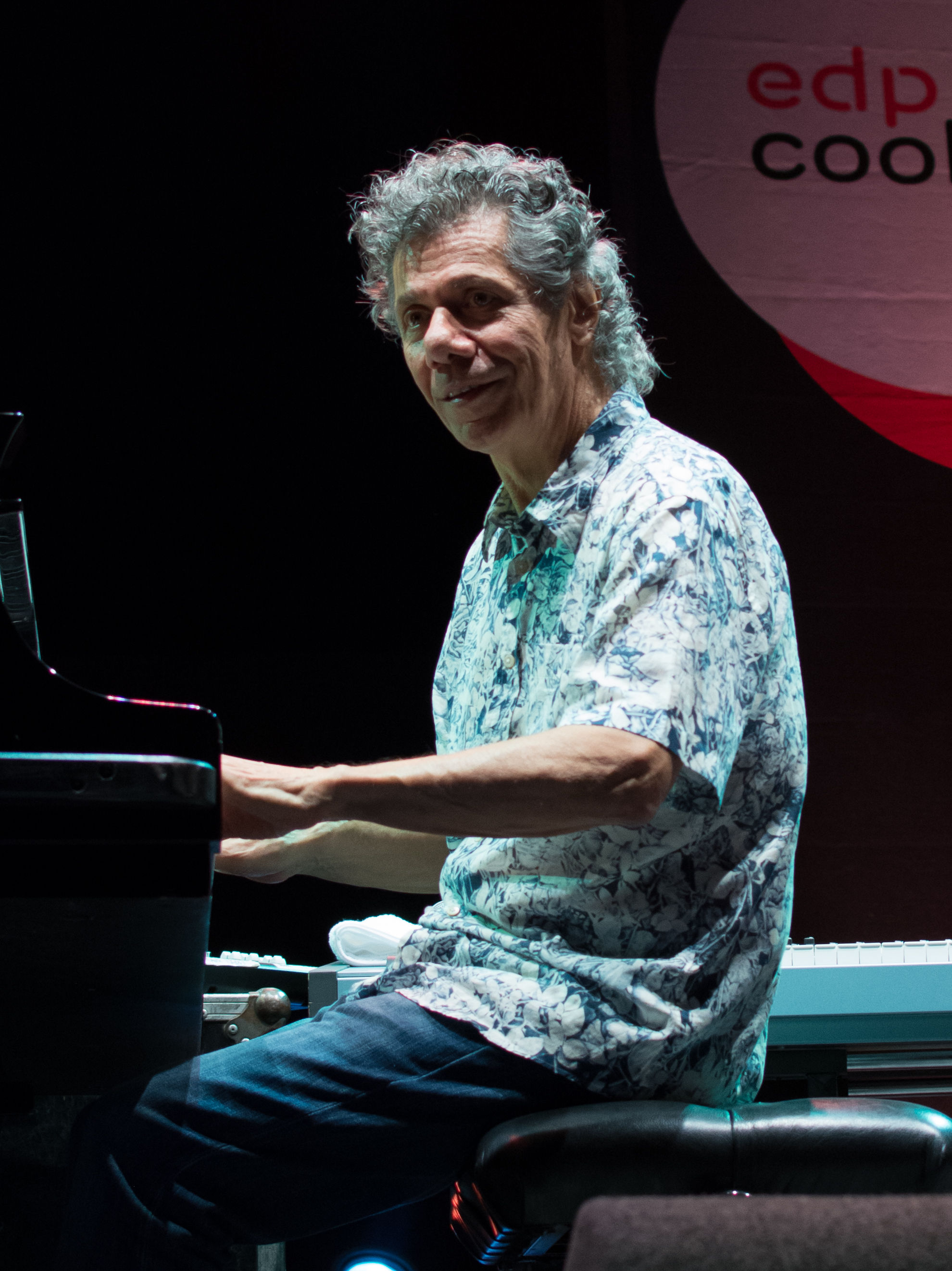 Chick Corea and Herbie Hancock